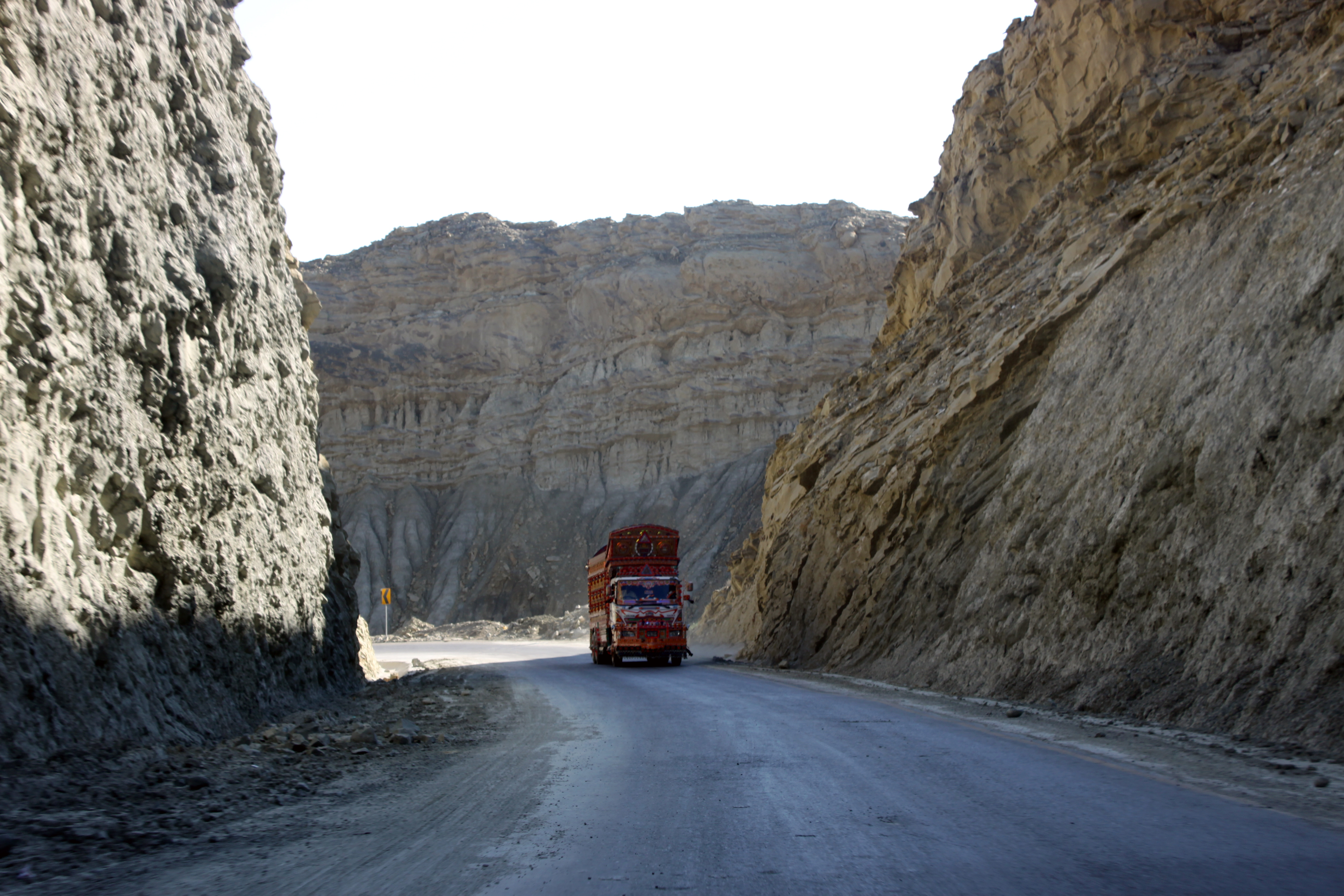 Makran coastal highway, in Balochistan (Pakistan).